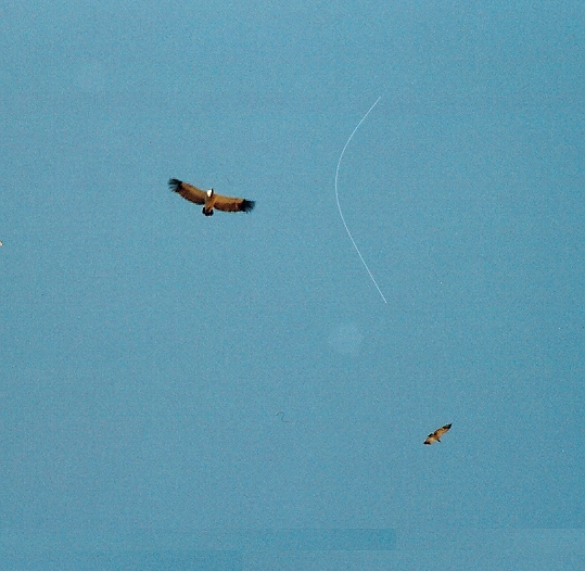 Cape vultures over Moremi Gorge, Tswapong, eastern Botswana (not to be confused with Moremi Wildlife Reserve in northern Botswana). One of Botswana's two colonies of these endangered birds is found in the Tswapong Hills, 45 km east of Palapye. They can be seen every day circling in thermals above Palapye and further west into the Kalahari. Taken c1995 on film.